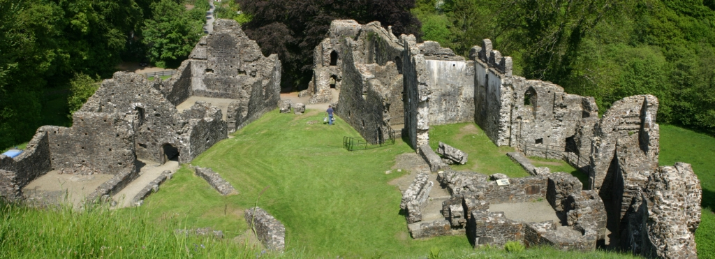 Okehampton Castle looking down into the bailey